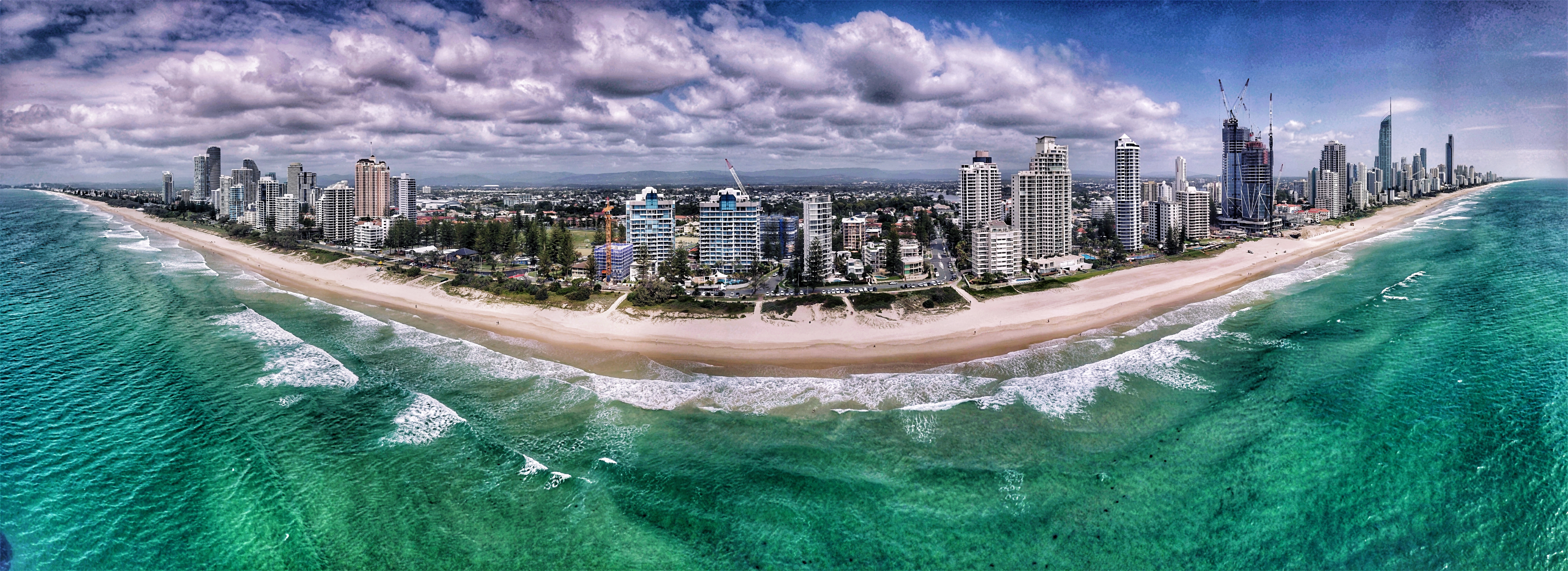 Aerial perspective of Main Beach in Surfer's Paradise. Taken Autumn 2018.